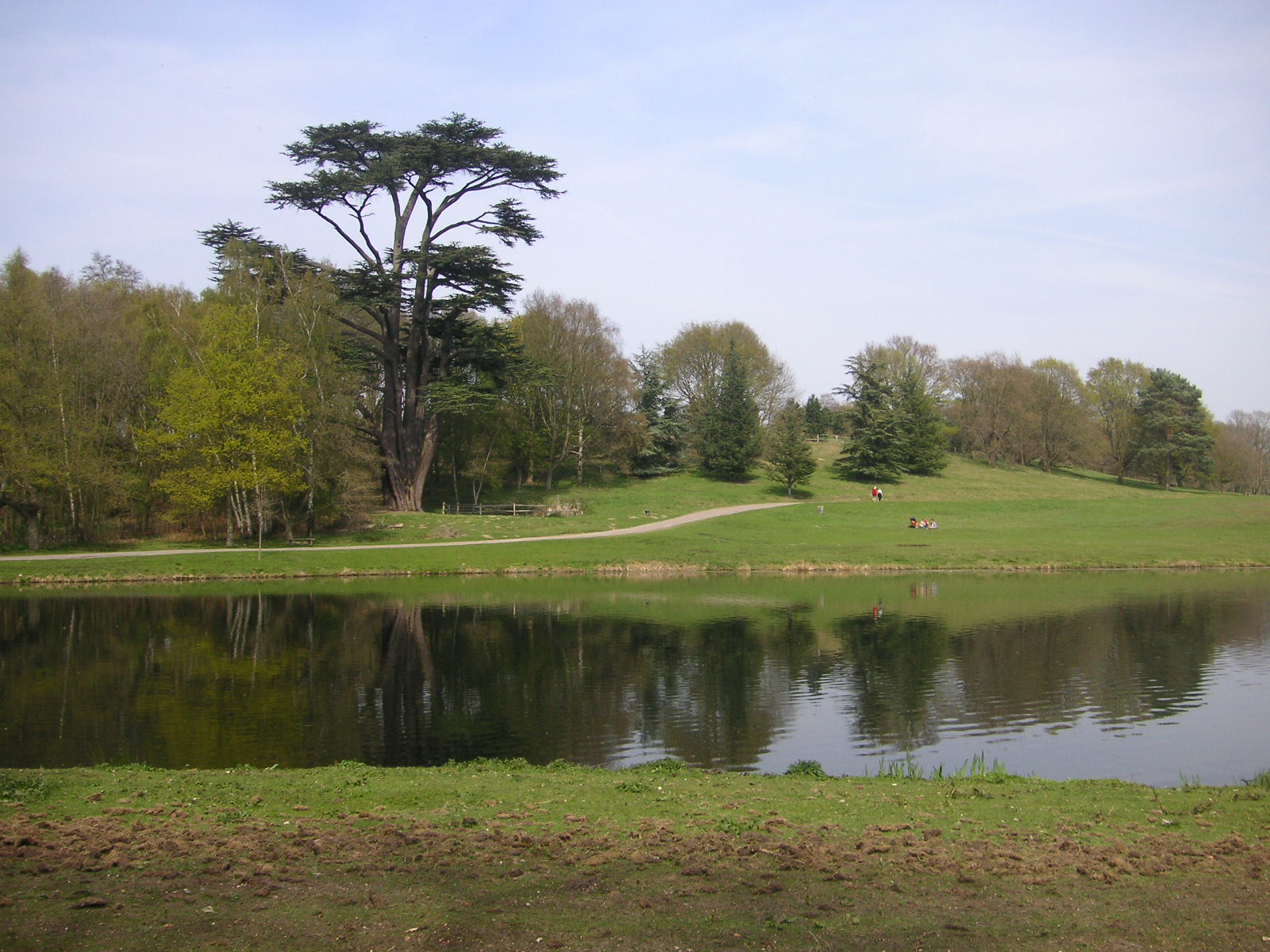 Painshill Park, Surrey, England. An 18th century landscape garden designed by Charles Hamilton MP. The "Great Cedar", 120 ft high and over 100 ft across, with a girth of 30 ft. Thought to be the largest Cedar of Lebanon in Europe.